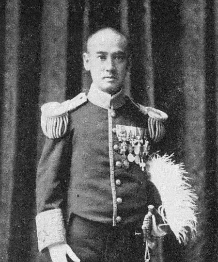 Yoritsumu Arima